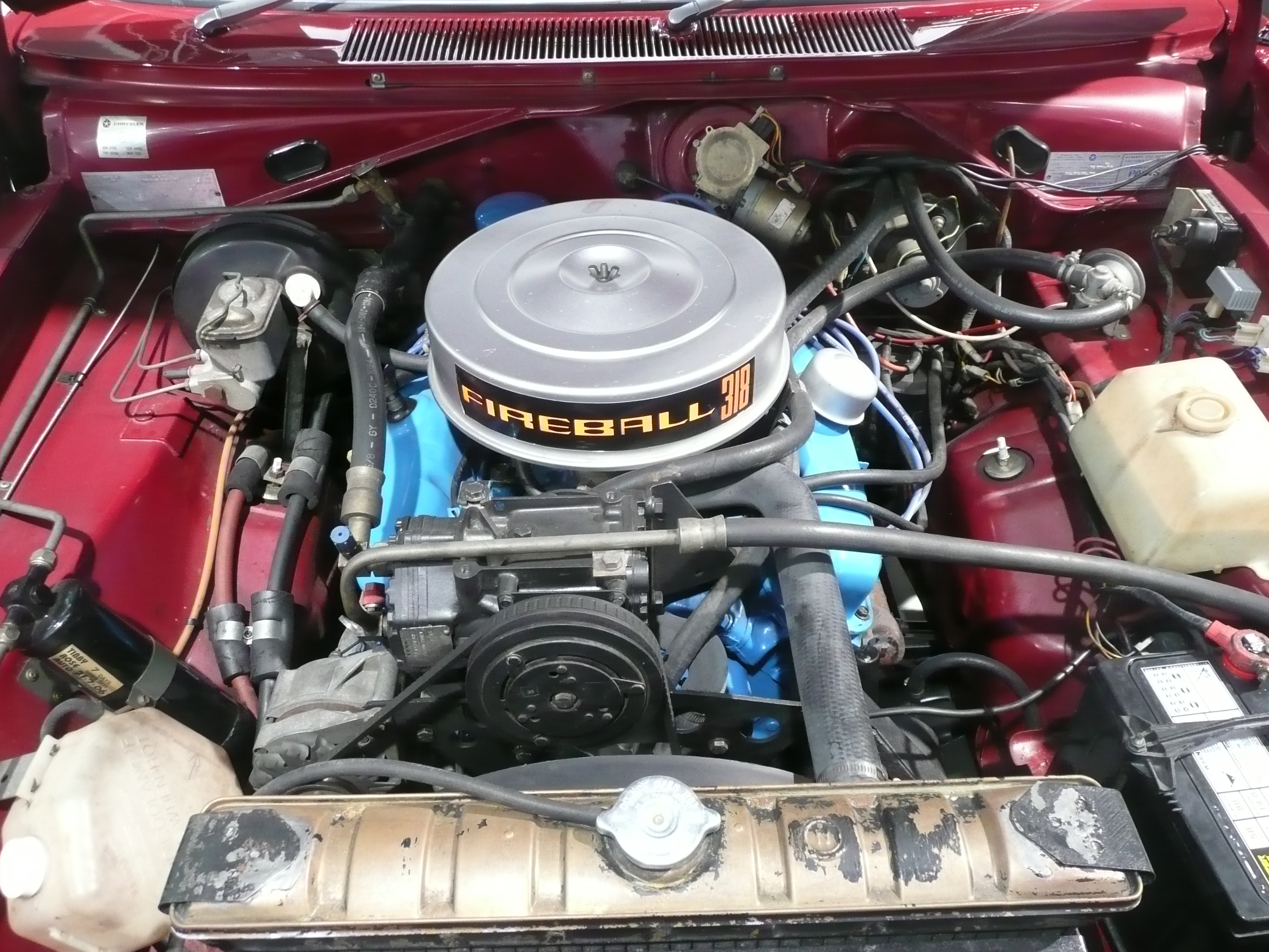 1976 Chrysler Charger (VK) 770 coupe. Photographed at the 2008 Australian International Motor Show, Sydney, New South Wales, Australia.